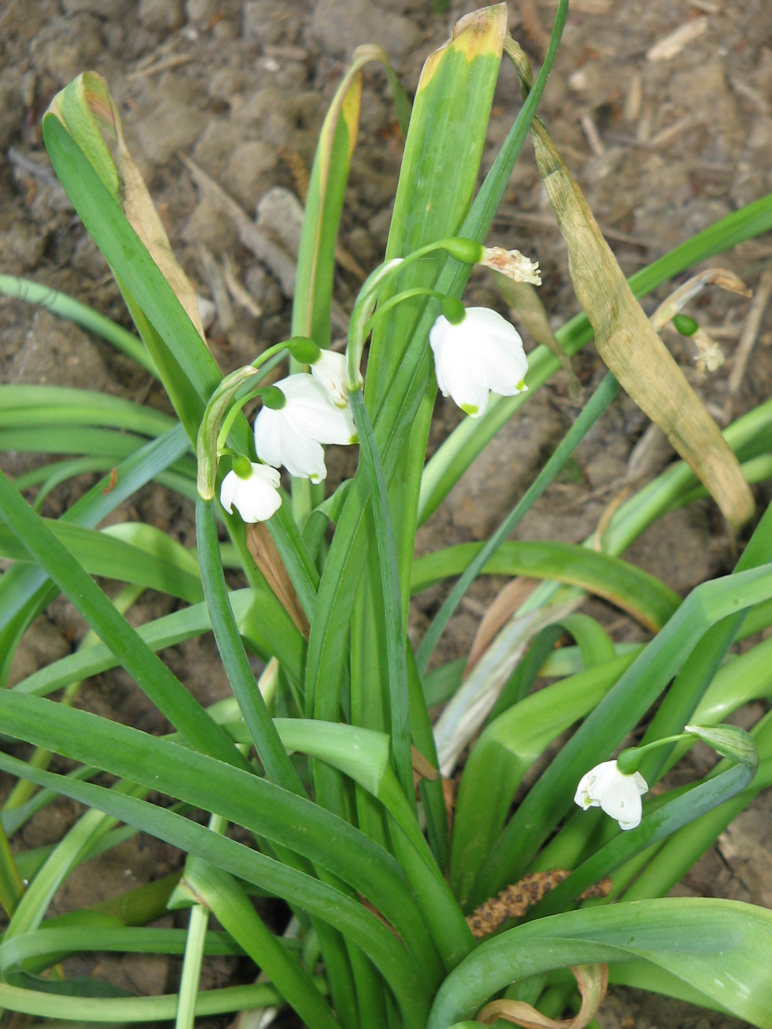 Leucojum aestivum subsp. pulchellum